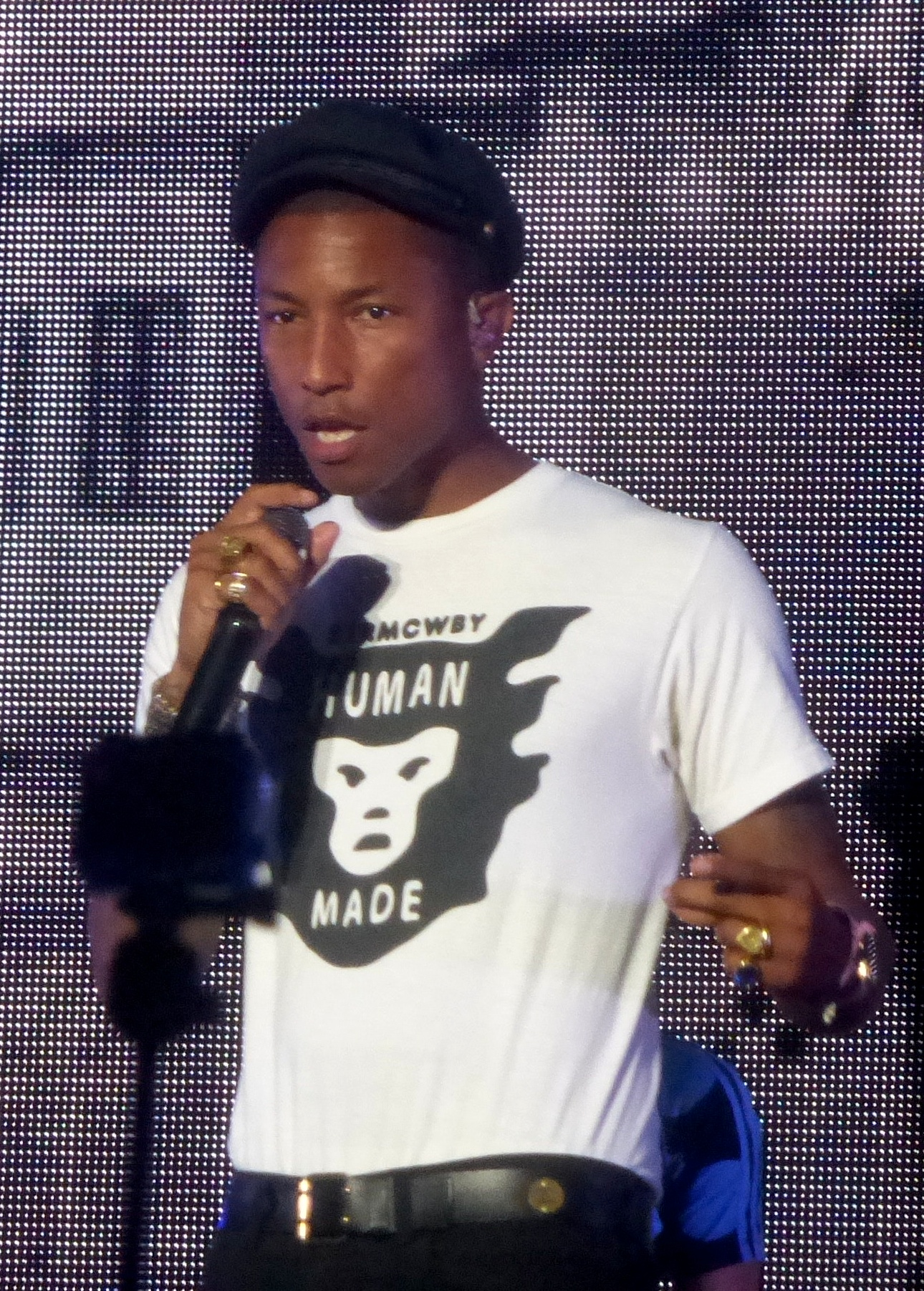 Pharrell Williams performing at Tokyo Summer Sonic Festival